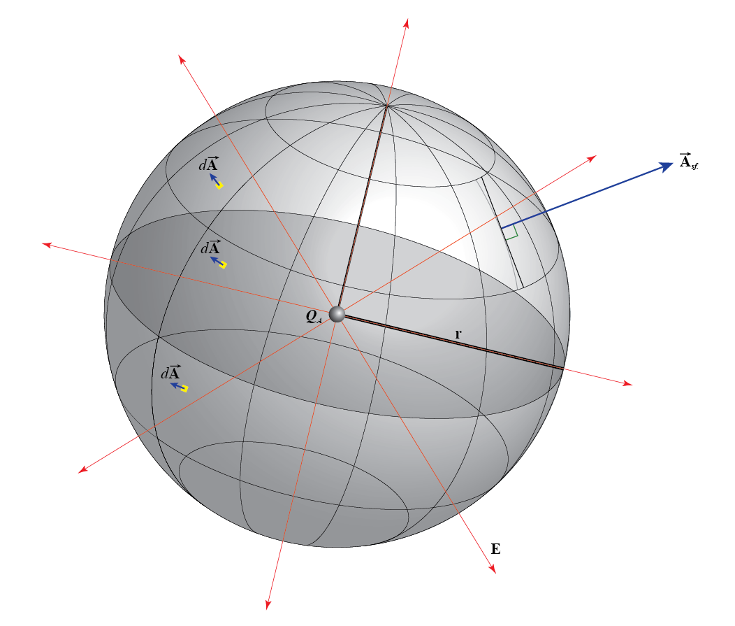 Electrical flux through a sphere